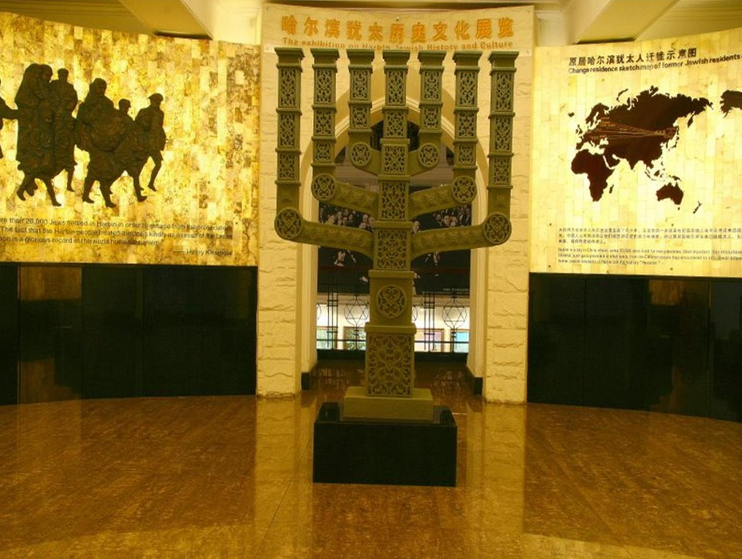 Inside the New Synagogue of Harbin, turned into a Jewish Museum and Cultural Center